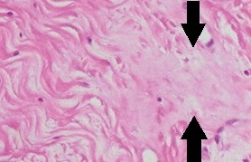 Micrograph of extragenital lichen sclerosus: epidermal atrophy, follicular plugging and basal vacuolization, initial homogenization of collagen in the dermis [HE x 20].